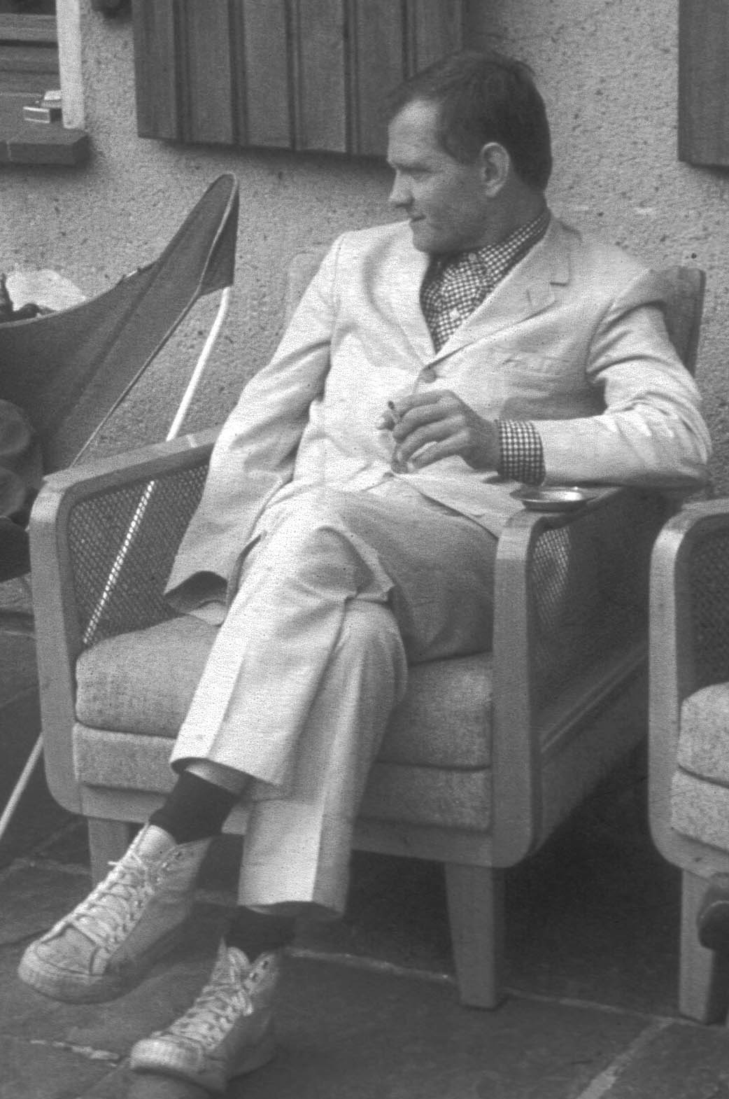 Painter K.R.H. Sonderborg during a visit in Hannover in 1962